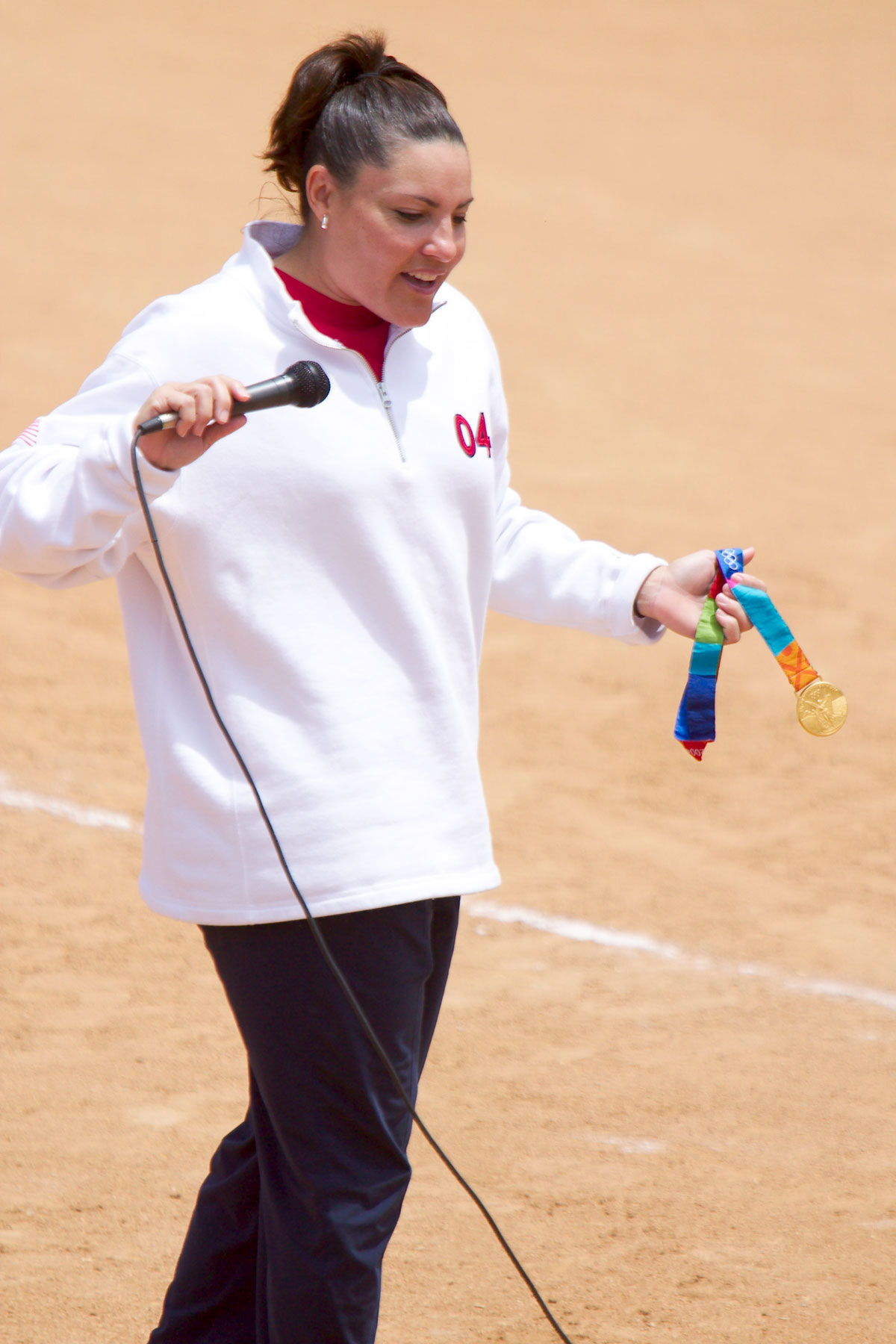 Lisa Fernandez speaking at the closing ceremony of the 2006 season of the Irvine Girls Softball Association, Colonel Bill Barber Marine Corps Memorial Park, Irvine, California, holding one of her Olympic Gold Medals. Taken with a Canon EOS D60, 70-200mm/F2.8IS lens, and 1.4x teleconverter, 1/3200s @ F4.0, ISO 100.